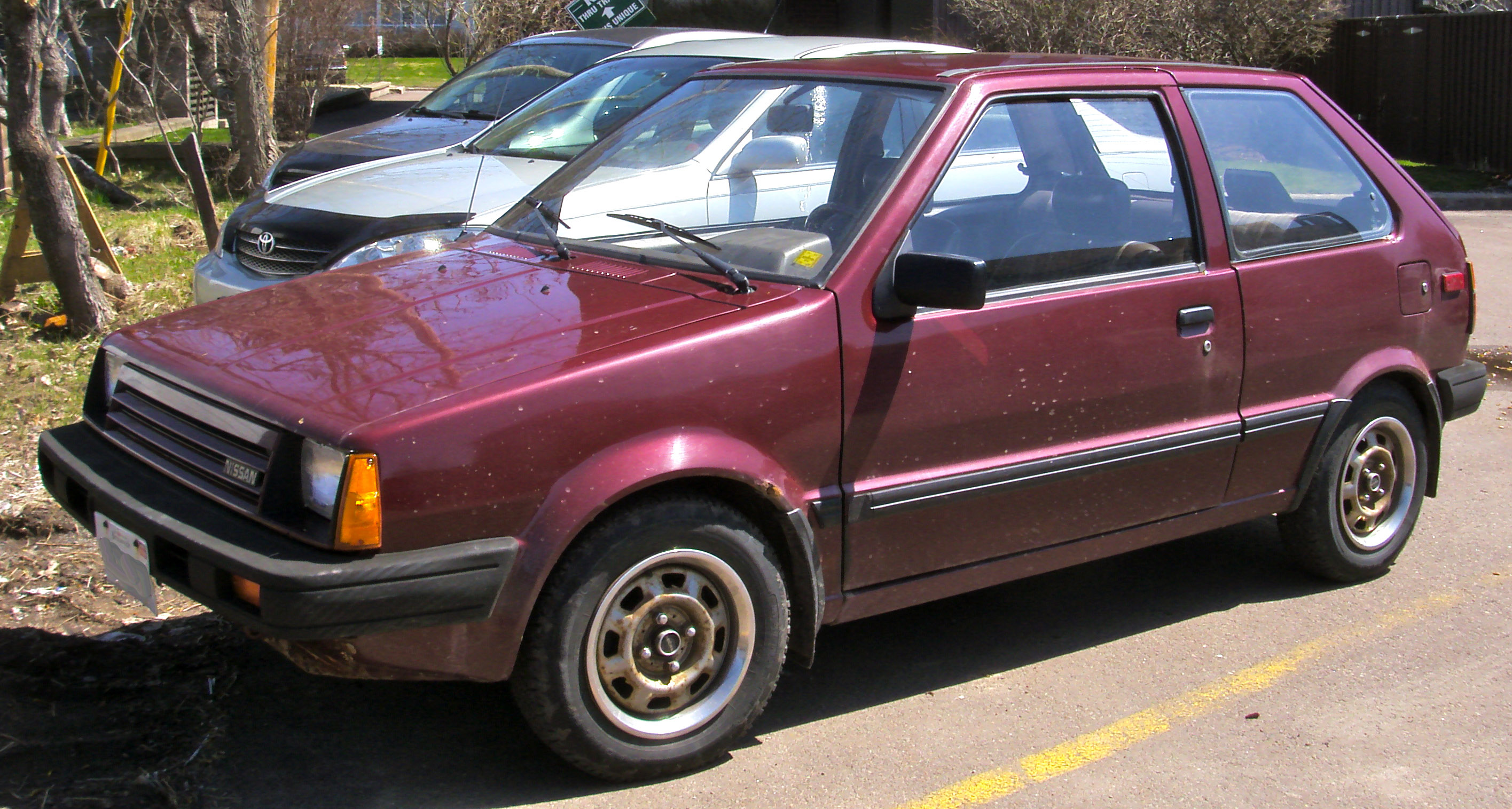 Nissan Micra K10 photographed in Moncton, New Brunswick, Canada.